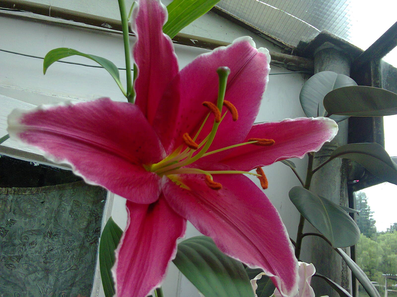 Lilium orientale flower in Kolozsvár (Cluj-Napoca), Transylvania.